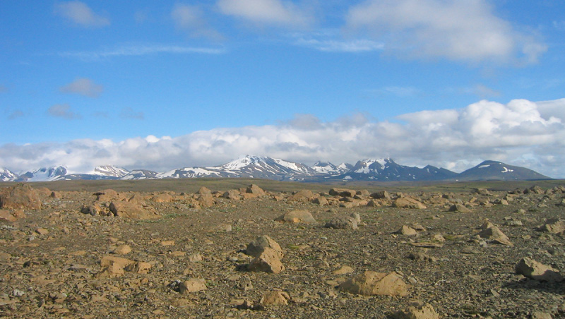 Kerlingarfjöll mountains as seen from Kjölur road in the highlands of Iceland. Photo taken/uploaded by User:Gsd97jks.